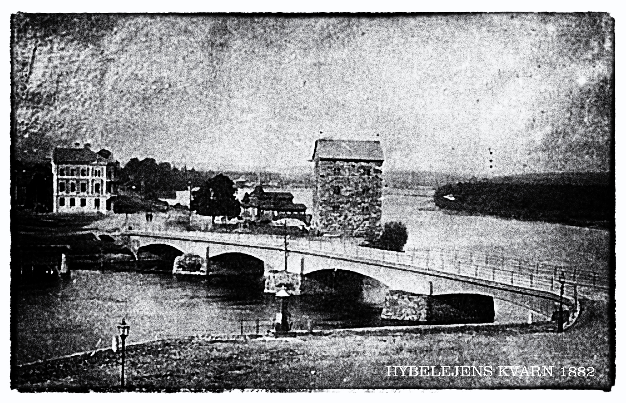 Hybelejens mill